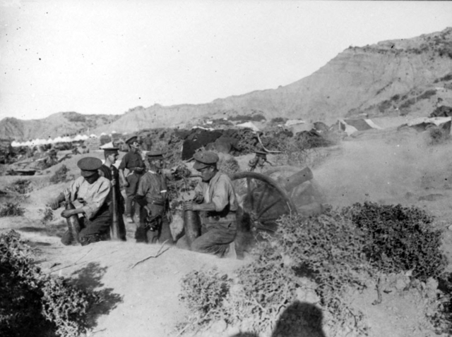 A British Territorial Force gun crew firing a howitzer. Comment : This is a BL 5 inch Howitzer. Location : Dardanelles, Turkey. NOTE : This version of the photograph has brightness and contrast artificially increased to highlight details.